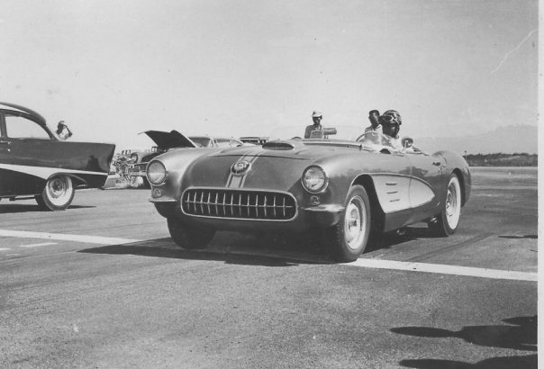 Francisco C. Ventura in his Corvette, getting ready to drag race. Manila, Philippines.